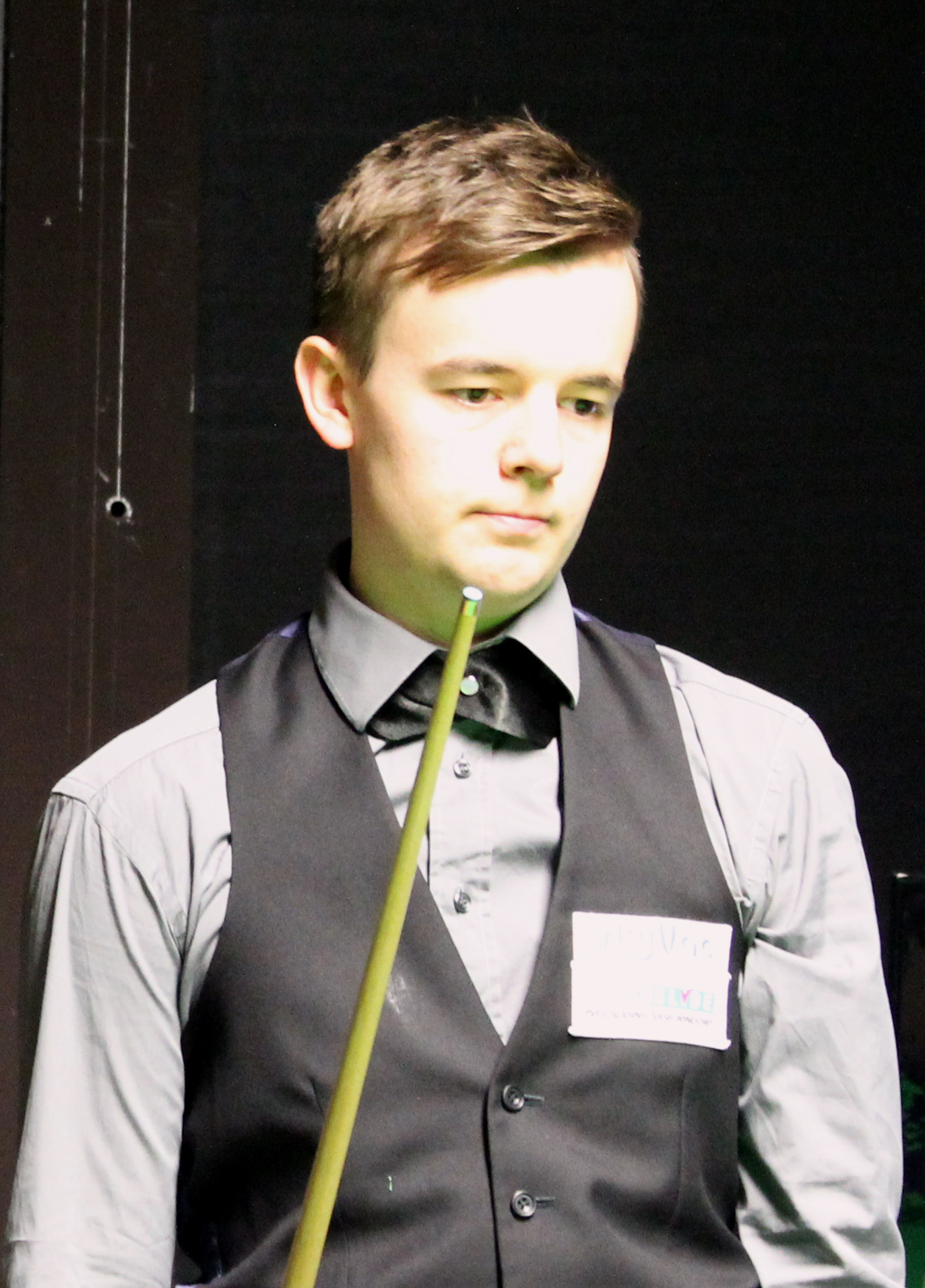 Ashley Hugill beim Paul Hunter Classic 2016